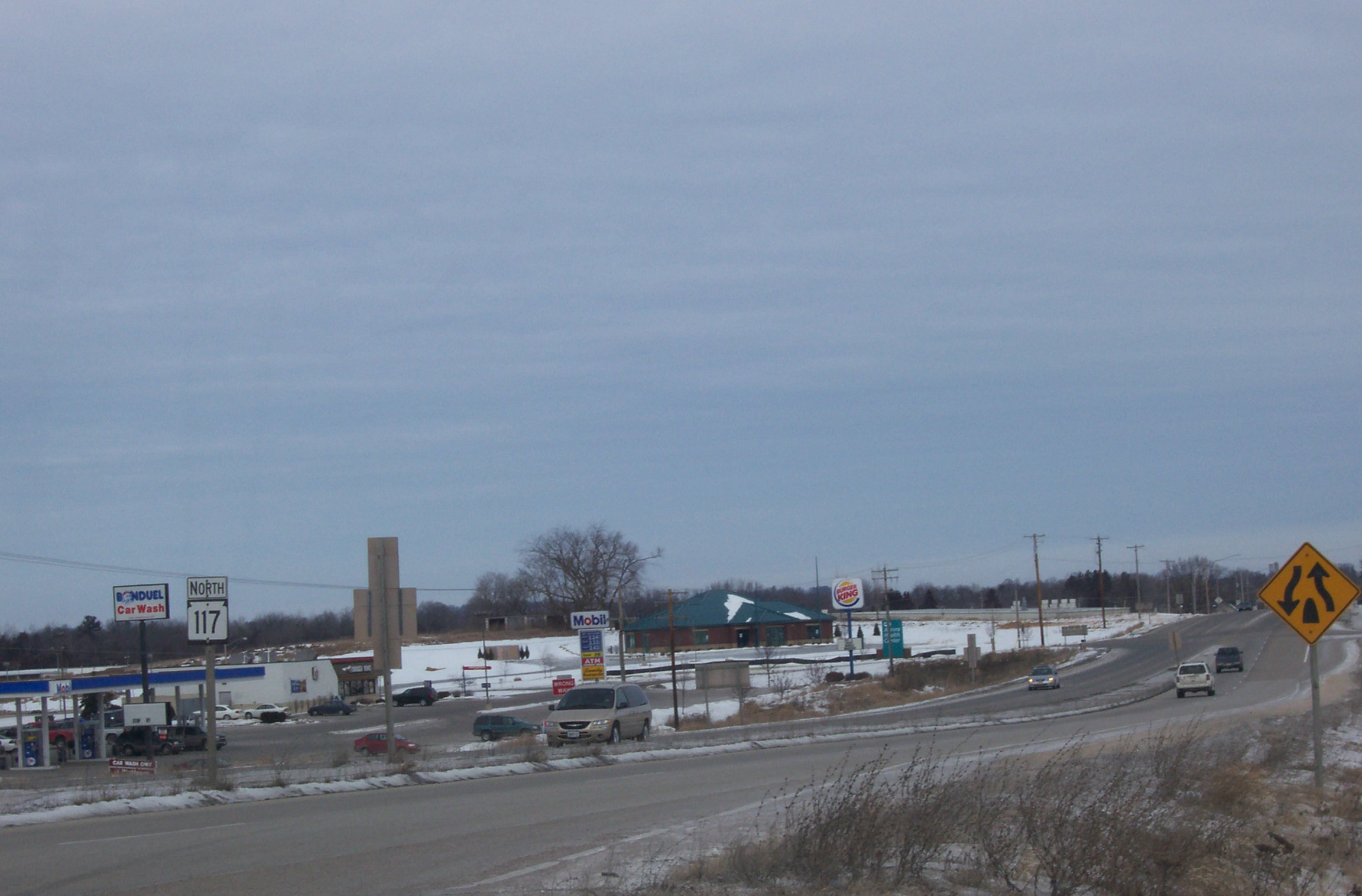 Category:Images of Wisconsin highways (Original text: Looking at the north from the south terminus of Wisconsin Highway 117 near Bonduel, Wisconsin. Cropped from original.)